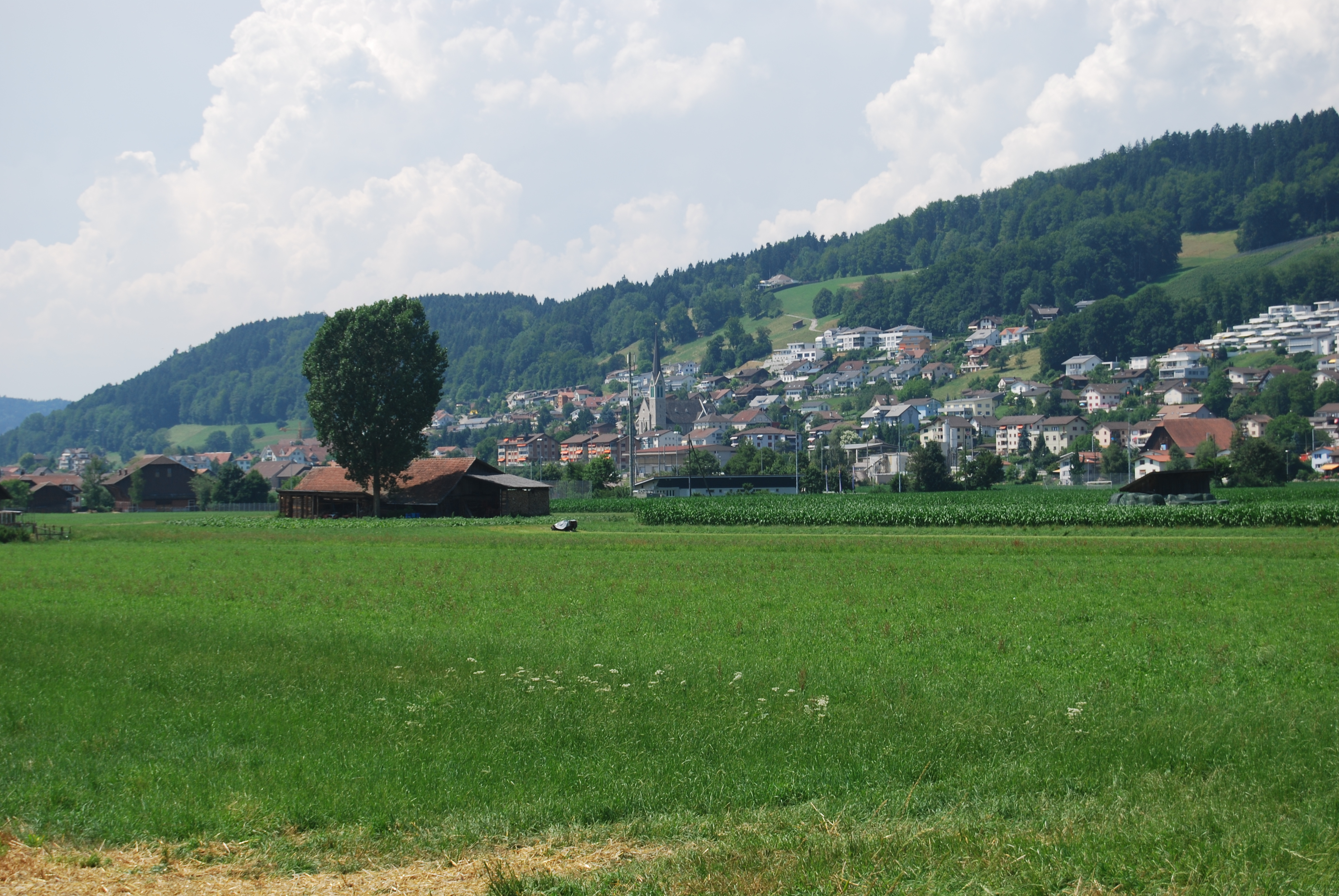 Egolzwil, canton of Luzern, Switzerland